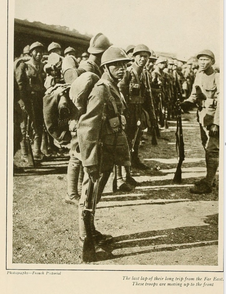 “These troops are moving up to the front” - from the book Fighting America's fight.